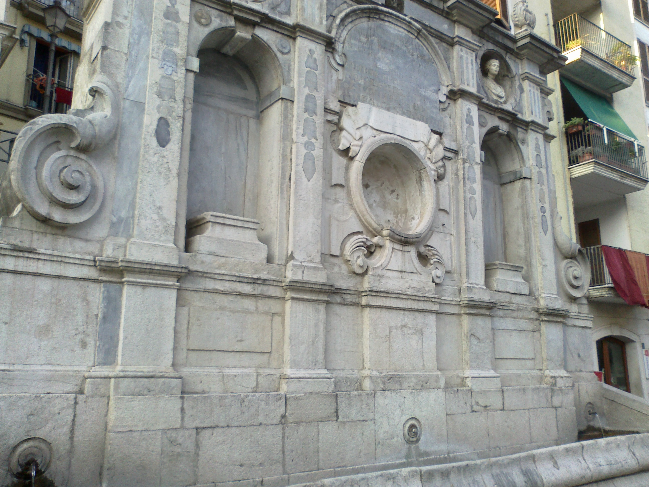 The Bellerofonte Fountain in Avellino